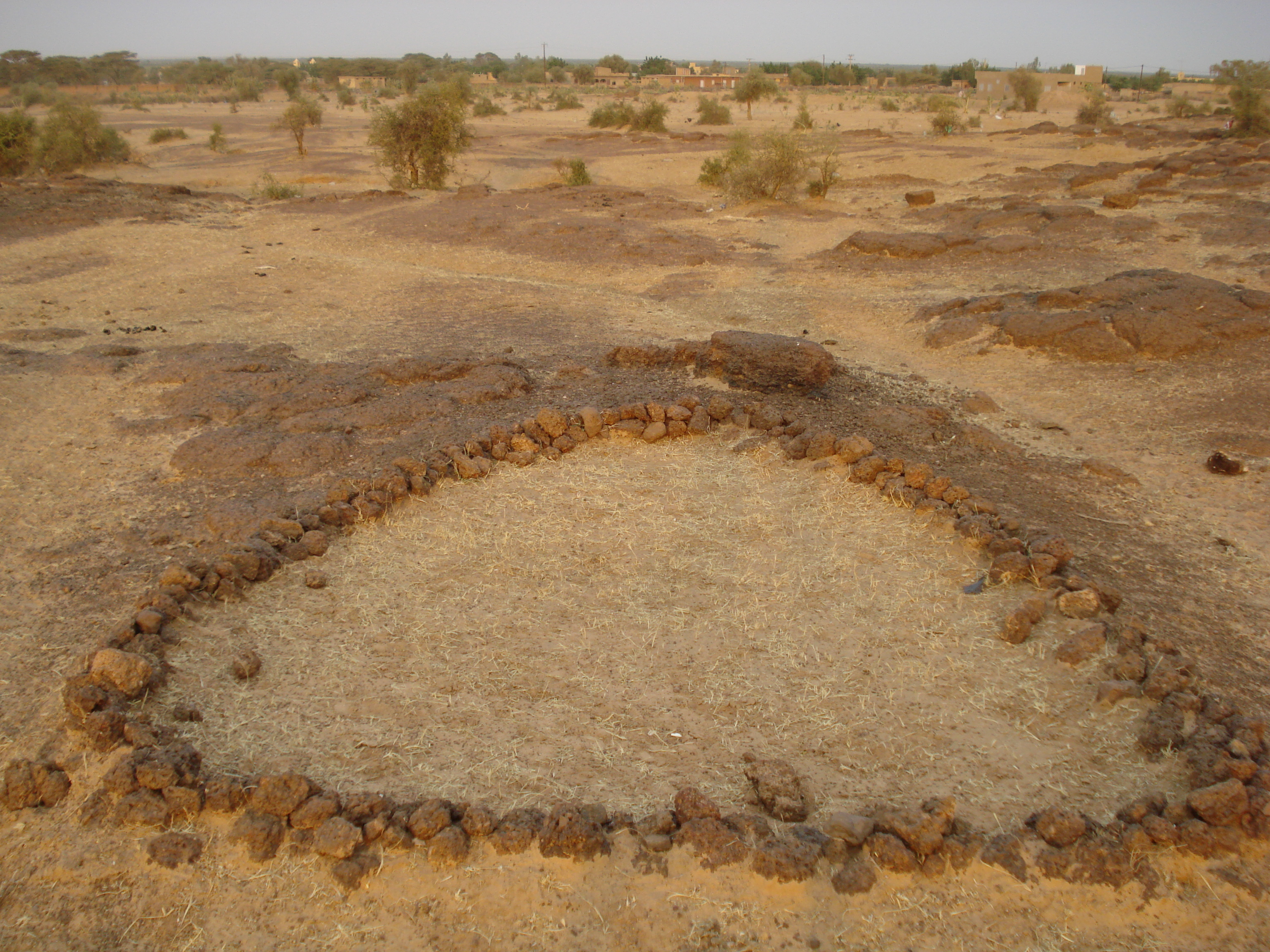 text